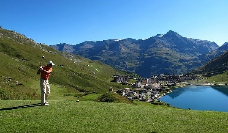 Tignes Le Lac in the back ground along with one the holes on the Golf Course in the foreground